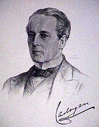 George Cadogan, 5th Earl Cadogan KG, PC (May 12, 1840 – March 6, 1915) was a British Conservative politician. He served as Lord Privy Seal from 1886 to 1892 (after 1887 in the Cabinet), and again in the cabinet as Lord Lieutenant of Ireland from 1895 to 1902 and was also the first Mayor of Chelsea in 1900